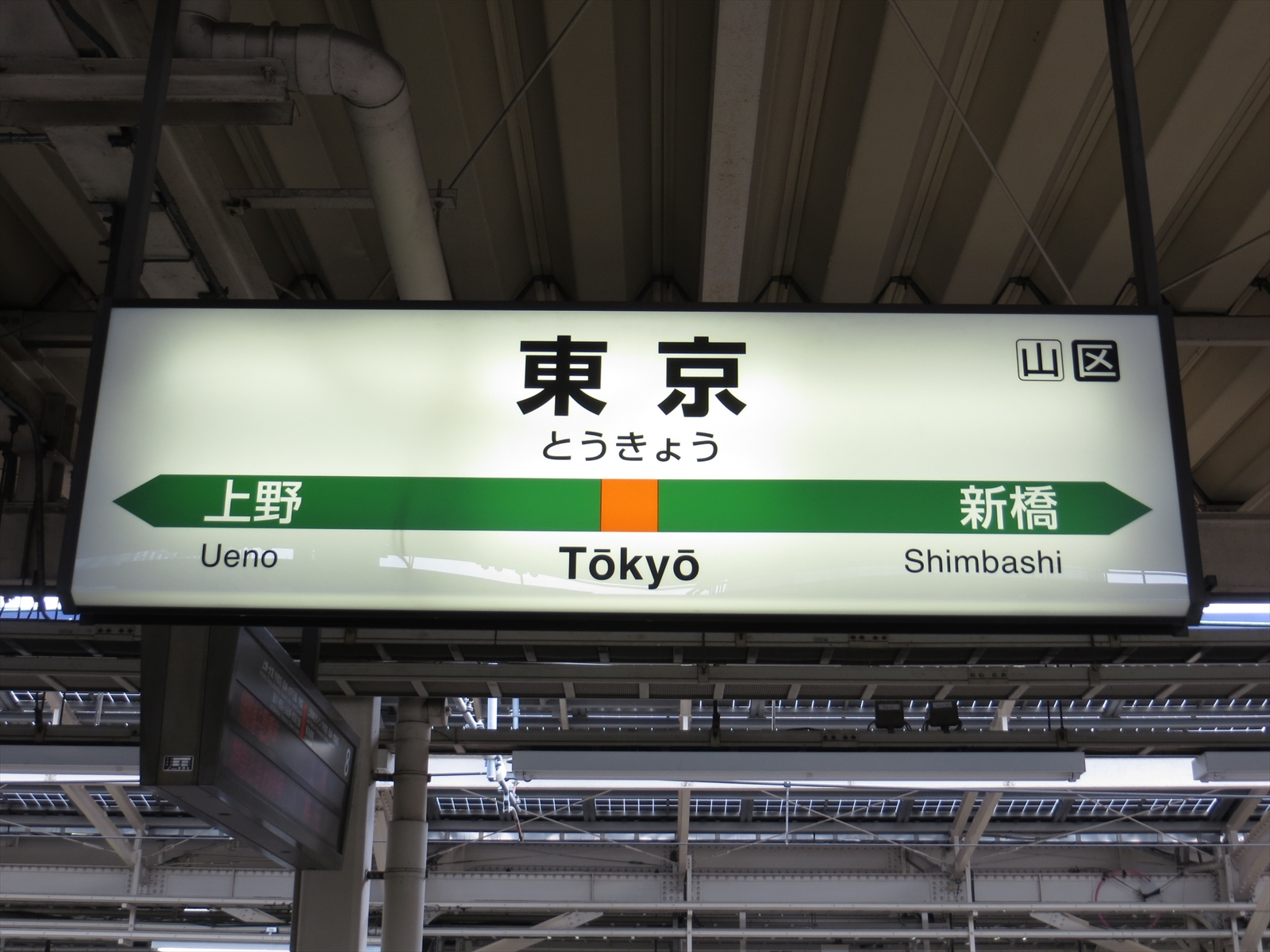 Station Sing of Tokyo Station.